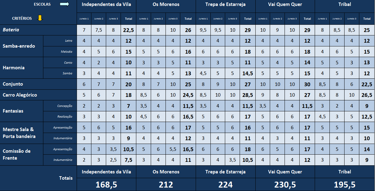 Results of Carnival of Estarreja in 2017